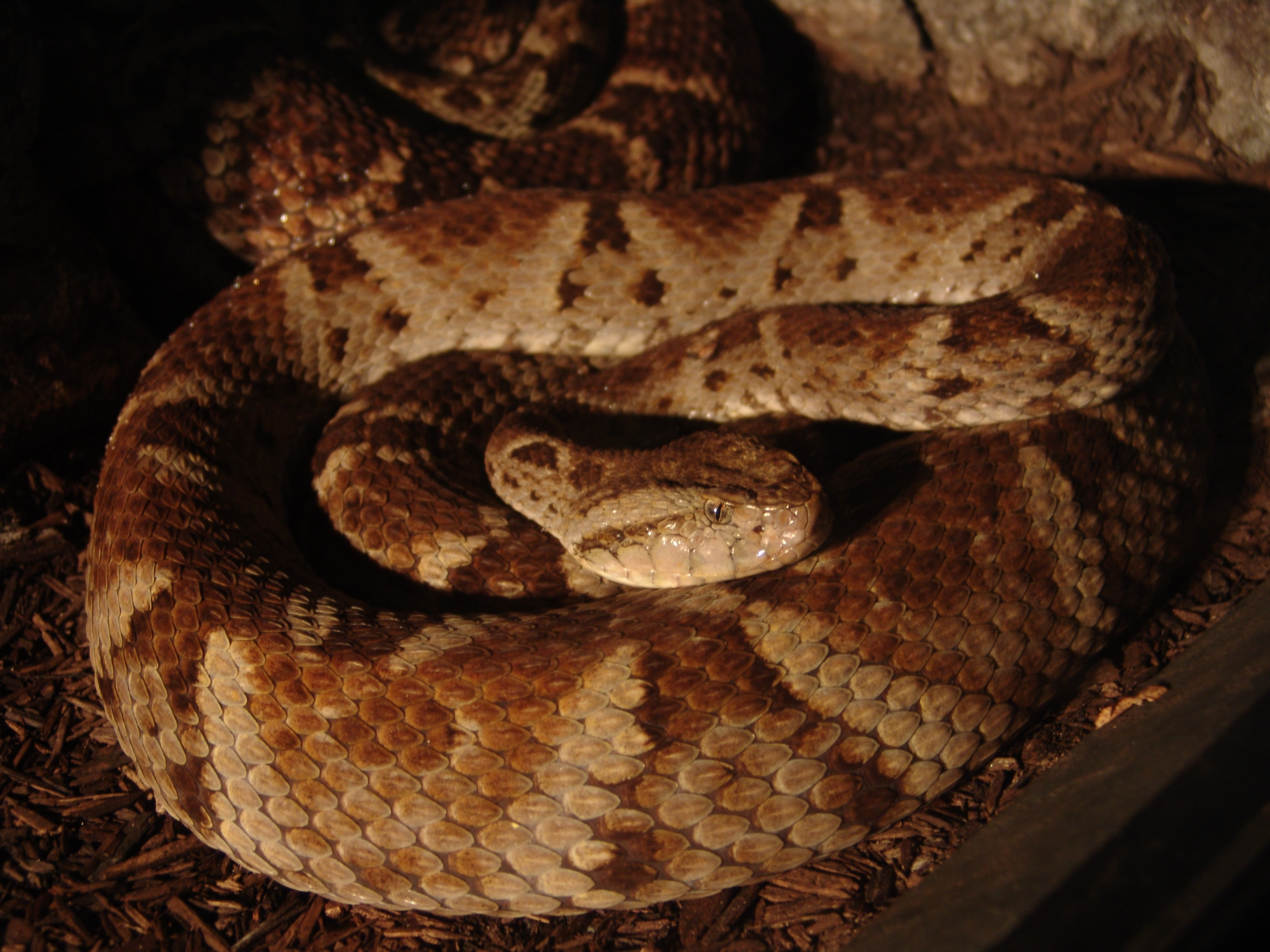 Whitetail Lancehead at Wilmington's Serpentarium. I took the picture. Bothrops leucurus